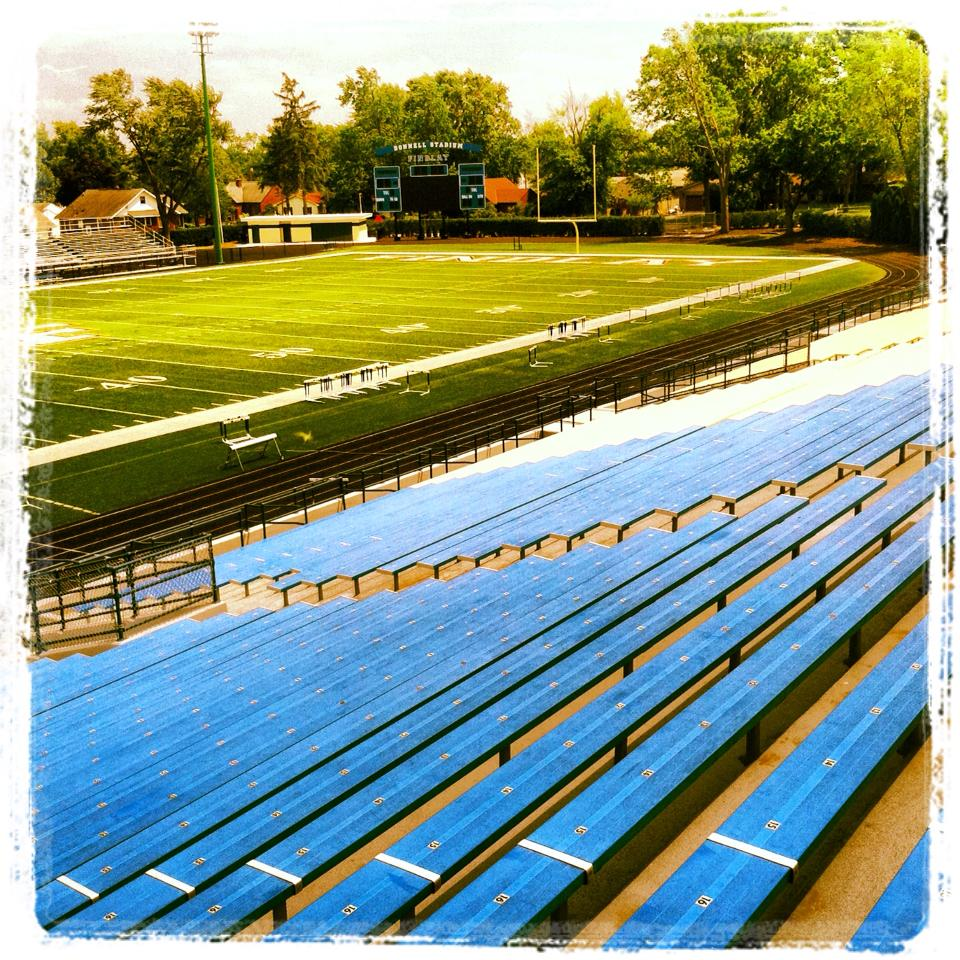 Overheadshot of the stadium